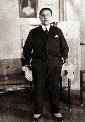 Ahmad Shah Qajar in Paris